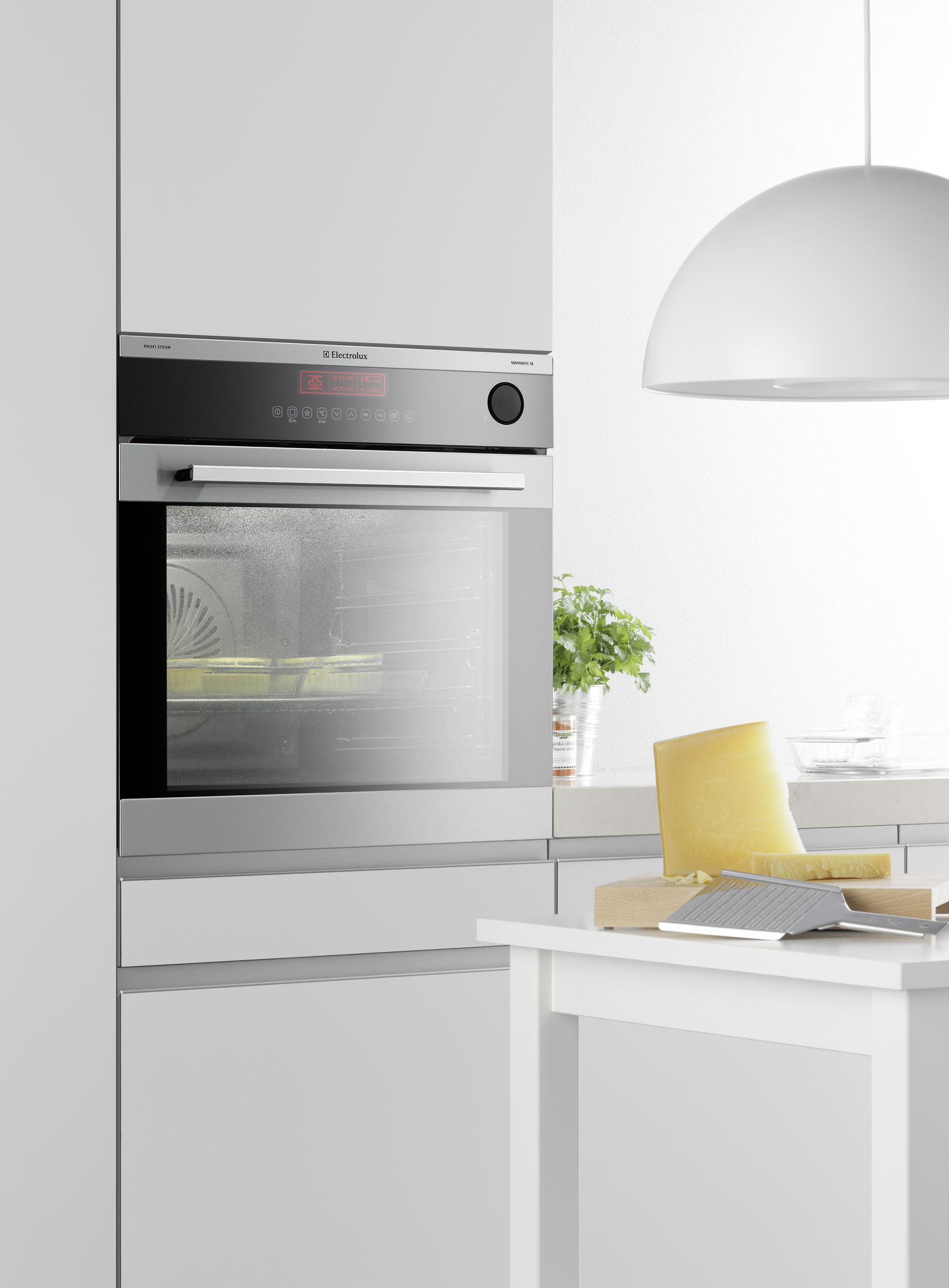 A kitchen with the Electrolux Profi Steam EBS SL 70, produced in Schwanden, Switzerland.